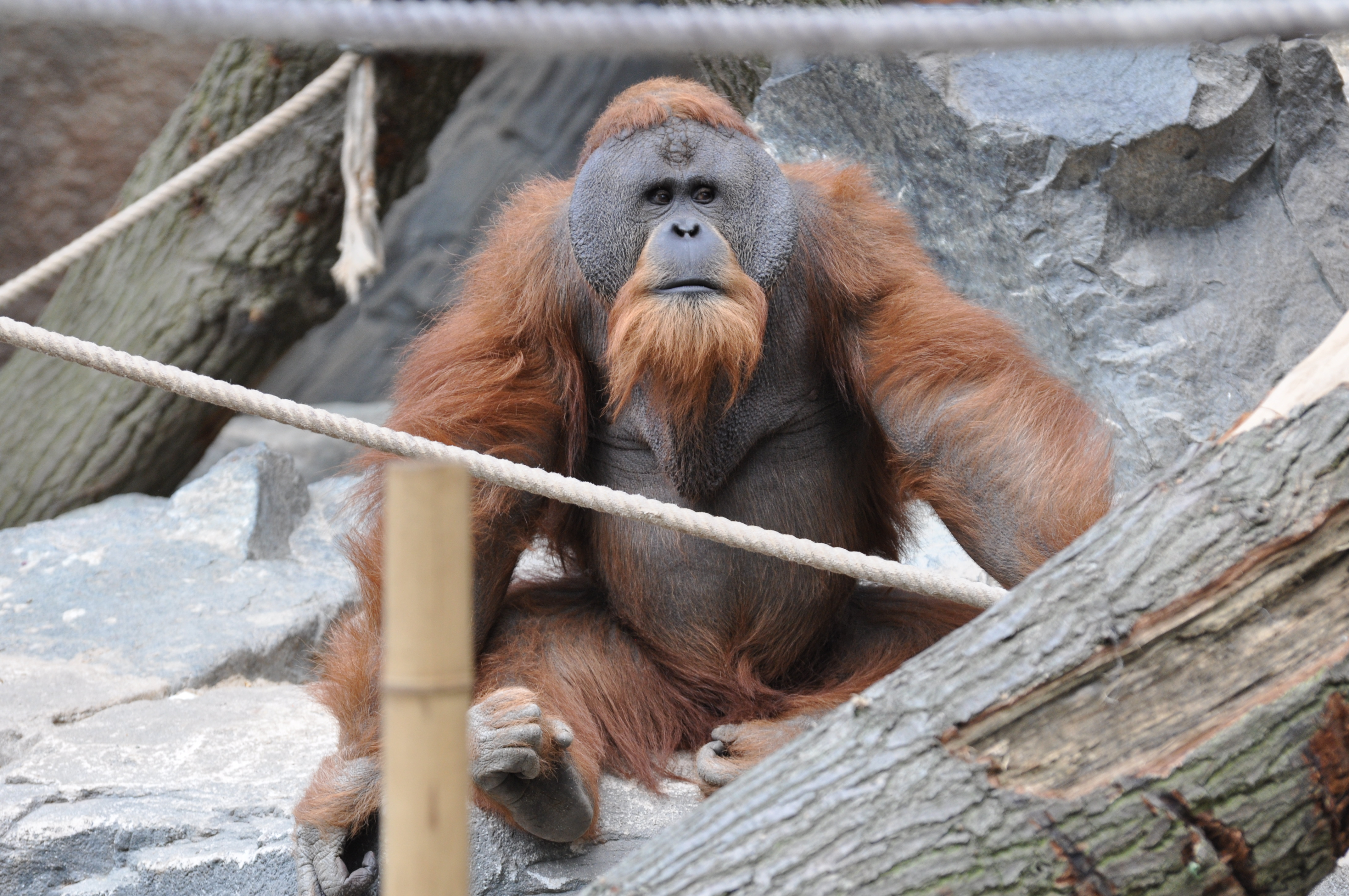 Sumatran orangutan male in Hagenbeck's Tierpark.